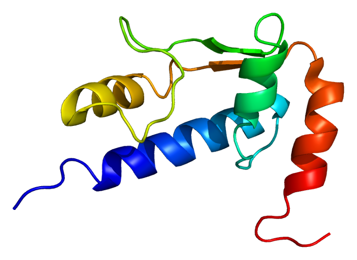 Structure of the GTF2I protein. Based on PyMOL rendering of PDB 1q60.